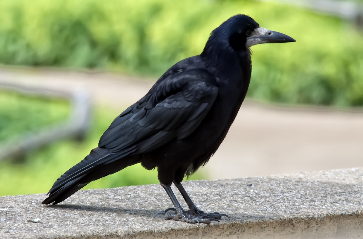 A Rook in Cookridge, Leeds, West Yorkshire, England.